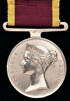 British / Honourable East Inia Company campaign medal for service in the China campaign of 1842.